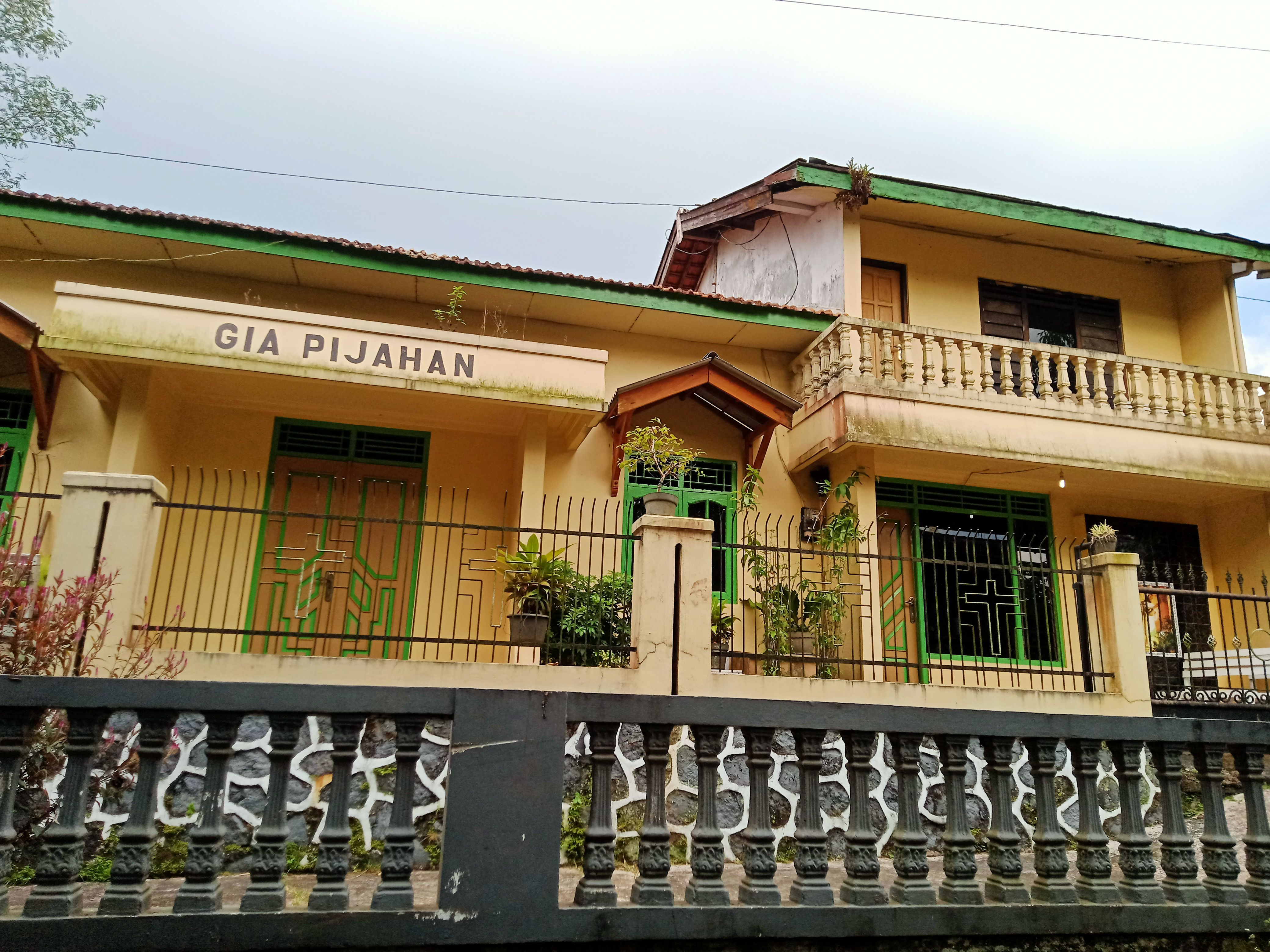 GIA Pijahan